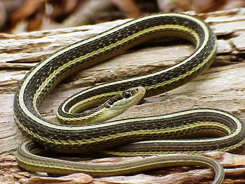 Photo of an Eastern Ribbon Snake